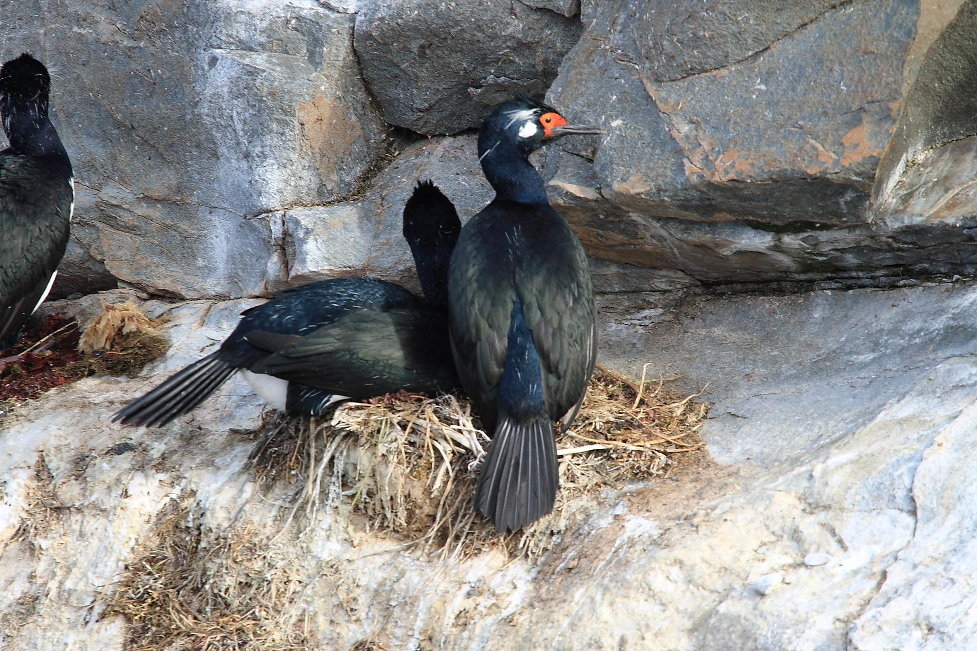 Rock Shags nesting on a rocky island in the Beagle Channel near Ushuaia, Tierra del Fuego, Argentina